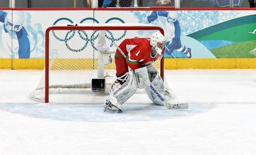 Cropped version of File:Finland vs. Belarus (4367630148).jpg